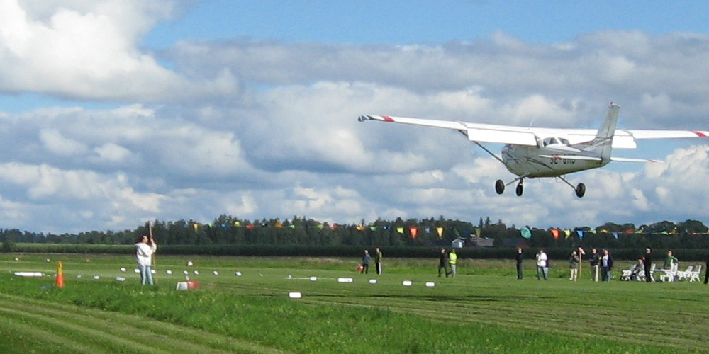 Landing over ostacle, precision flying